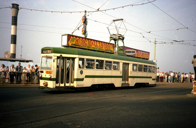 One-man car No 8 Blackpool Tramway centenary 1985